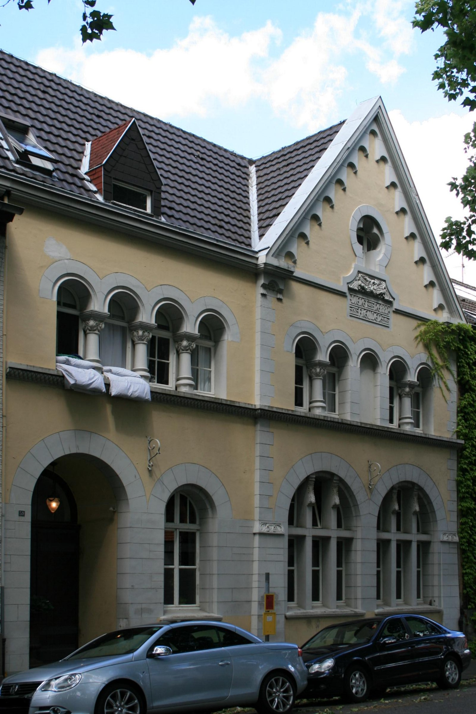 Cultural heritage monument No. M 004 in Mönchengladbach